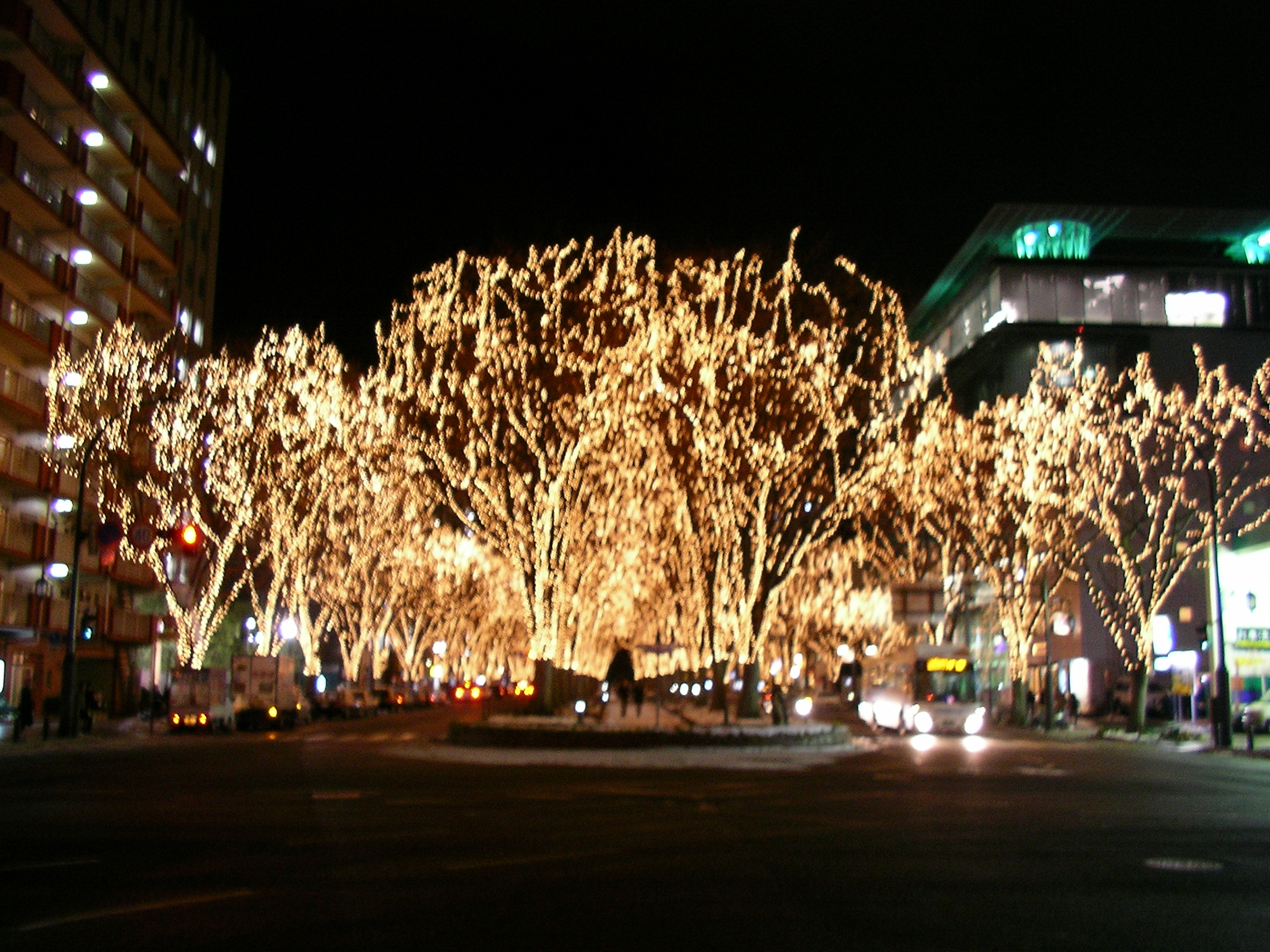 Photograph of Sendai Pageant of Starlight (SENDAI光のページェント)